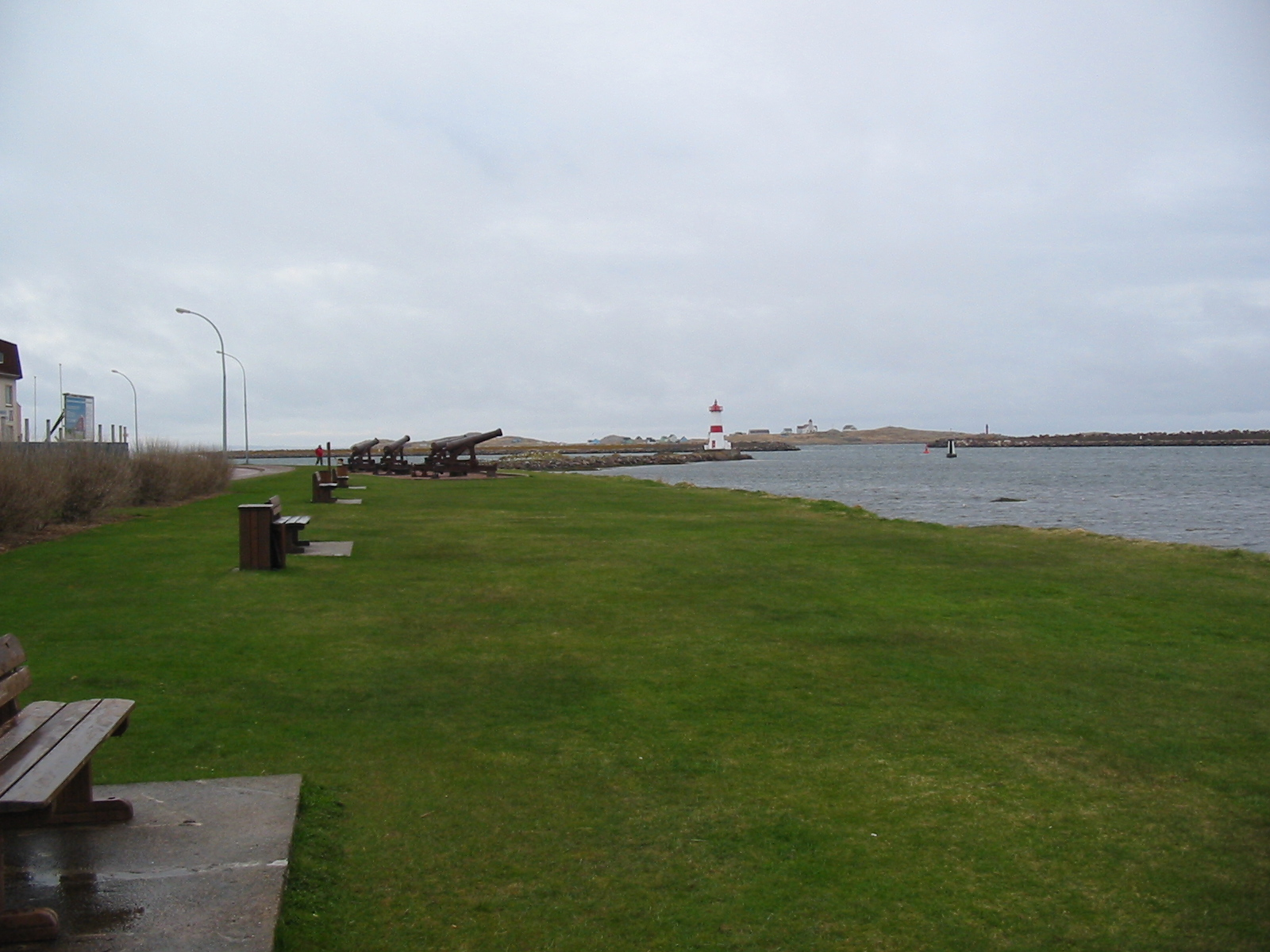 Canons and Lighthouse at the mouth of the harbour in Saint Pierre--May 14, 2008.